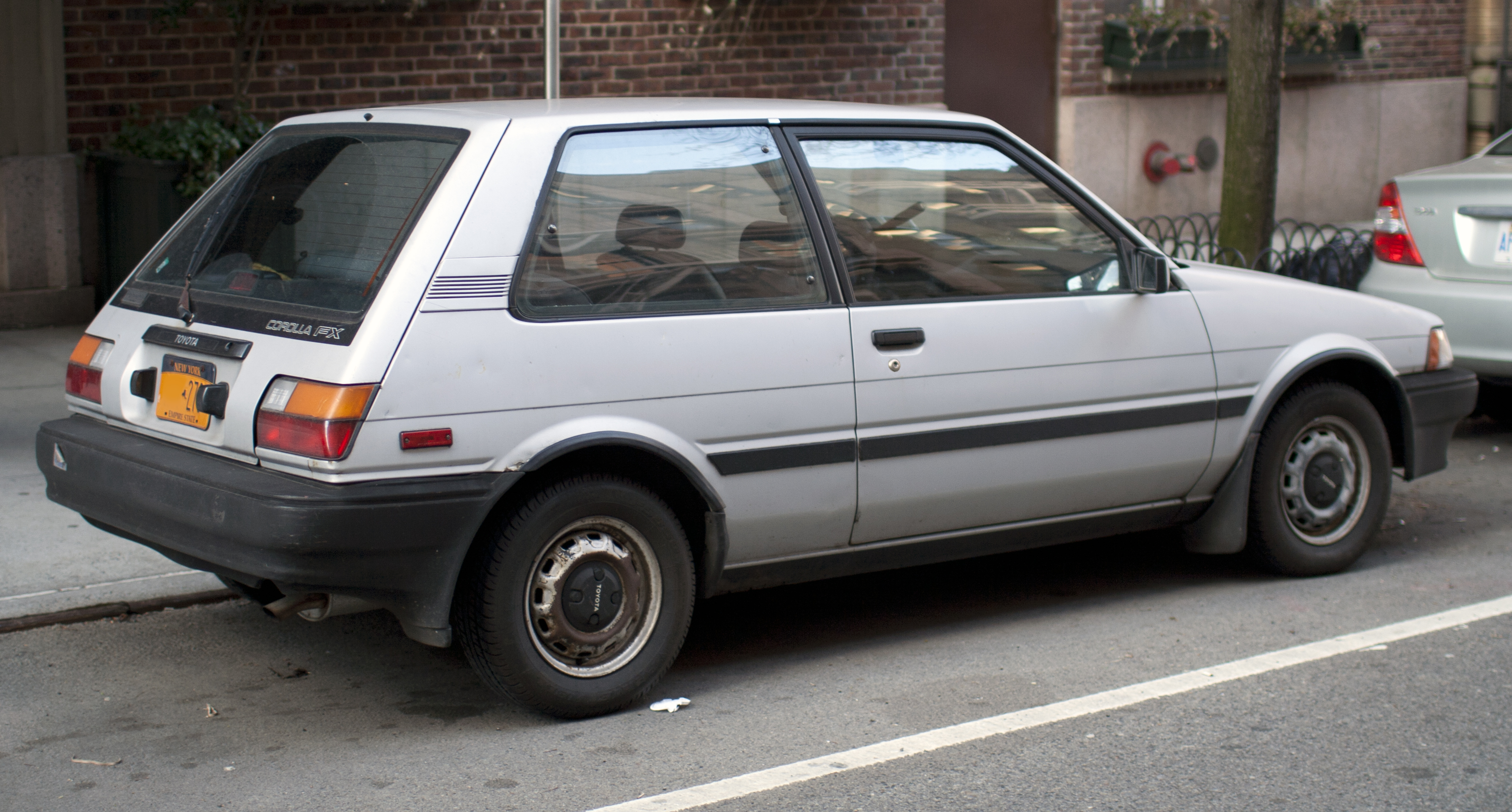 Rear right 3/4 view of a 1988 Toyota Corolla FX (AE82), built at the NUMMI plant in Fremont, California. 1.6 litre engine and "active" seatbelts.